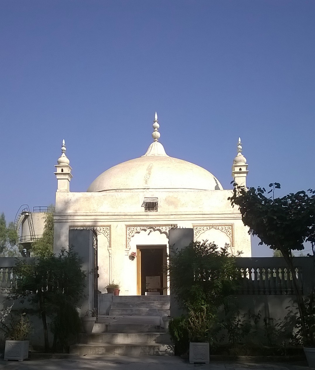 Shrine of Hafiz Muhammad Hayat located in Hafaz Hayat, Gujrat, Pakistan